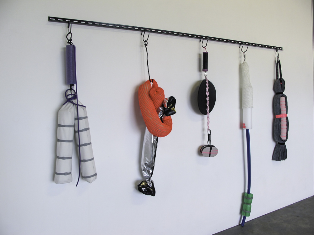 "There's something happening here", Installation View. Boxcopy Gallery, Brisbane, 2018